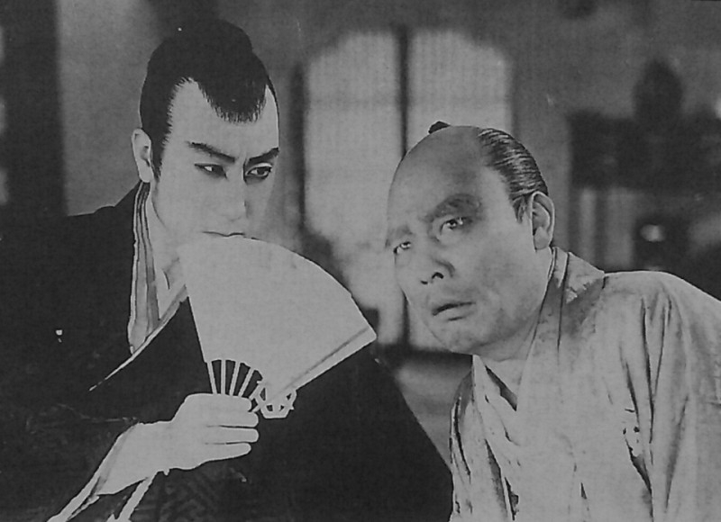 Chiezō Kataoka (role: Kai Harada) and Michisaburo Segawa in Akanishi Kakita (1936) directed by Mansaku Itami